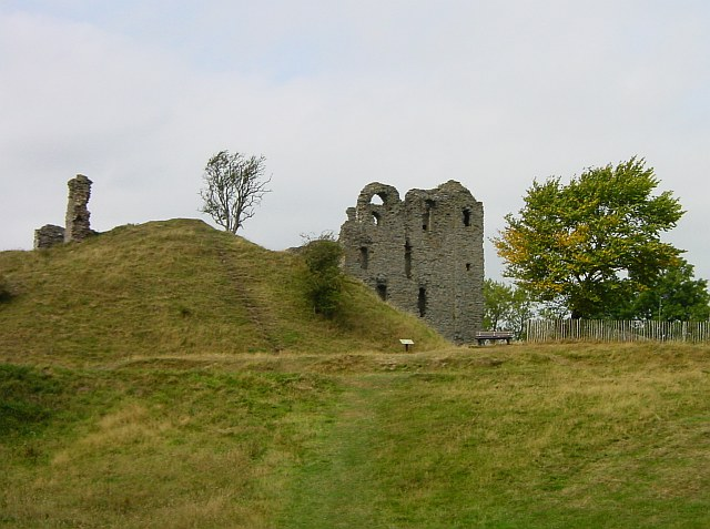 Clun Castle, Shropshire, England.